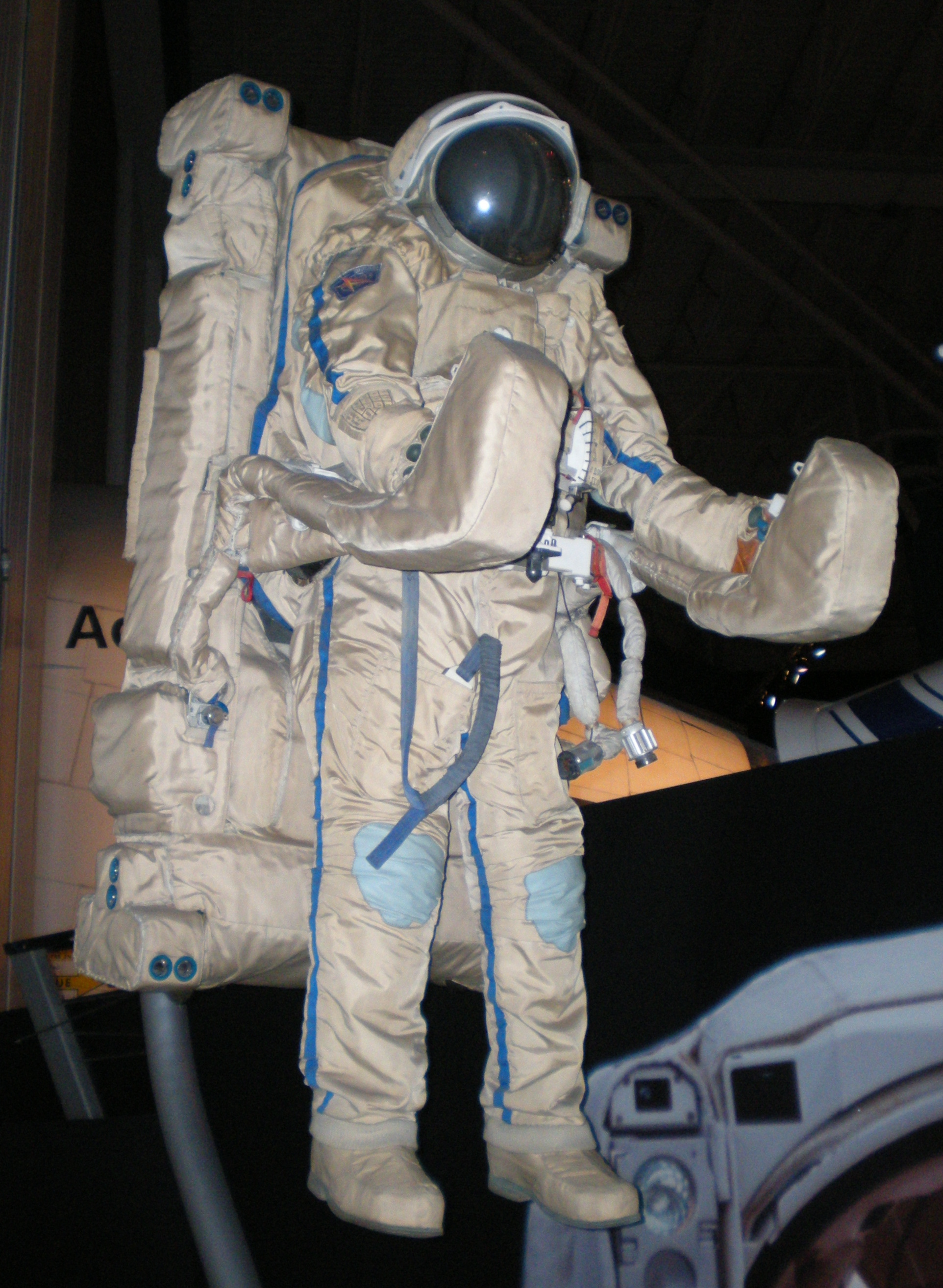 None.